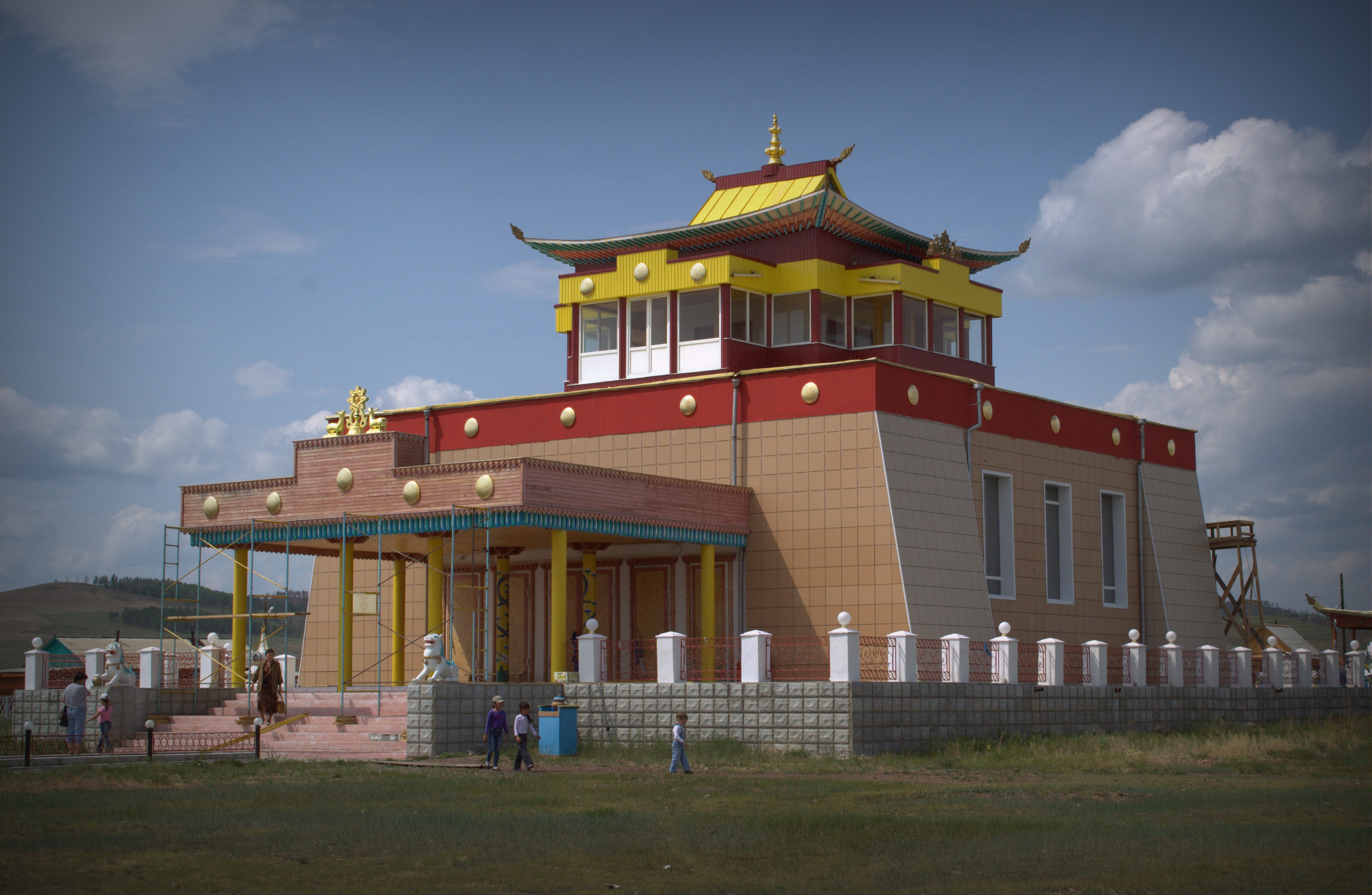 Egituisky Datsan - Buddhist temple.Eravninsky district, Buryatia, Eastern Siberia